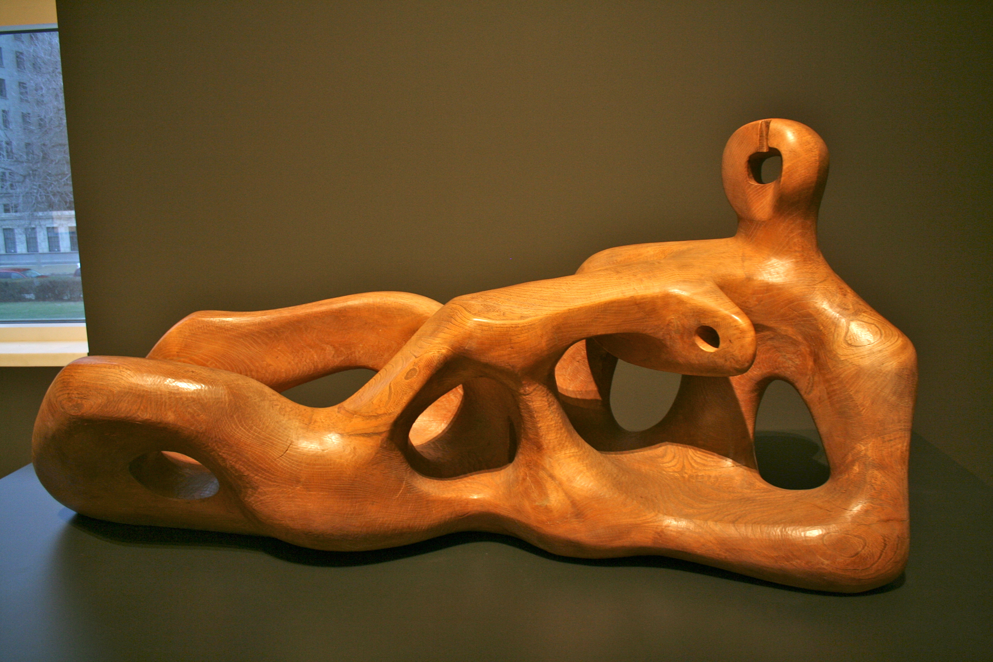 Large wooden sculpture, Reclining Figure by Henry Moore, on display at the Detroit Institute of Art. It was created in 1939, made of elm wood, and is 3' 1" x 6' 7" x 2' 6".